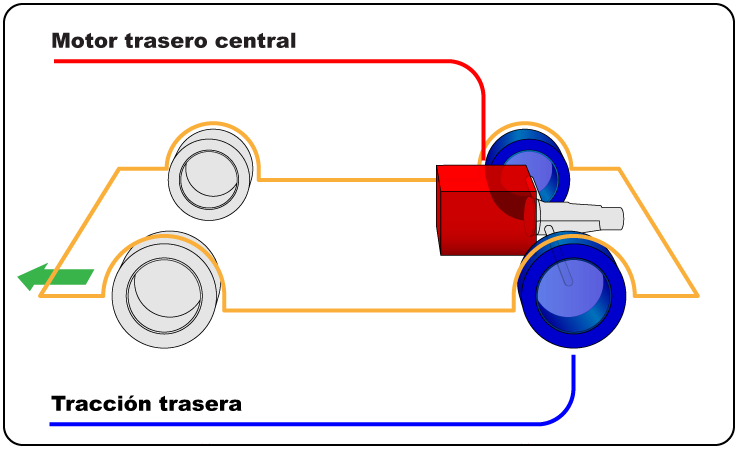 Car the engine and drive wheel placement diagrams (English versions coming up) (Other versions coming up)